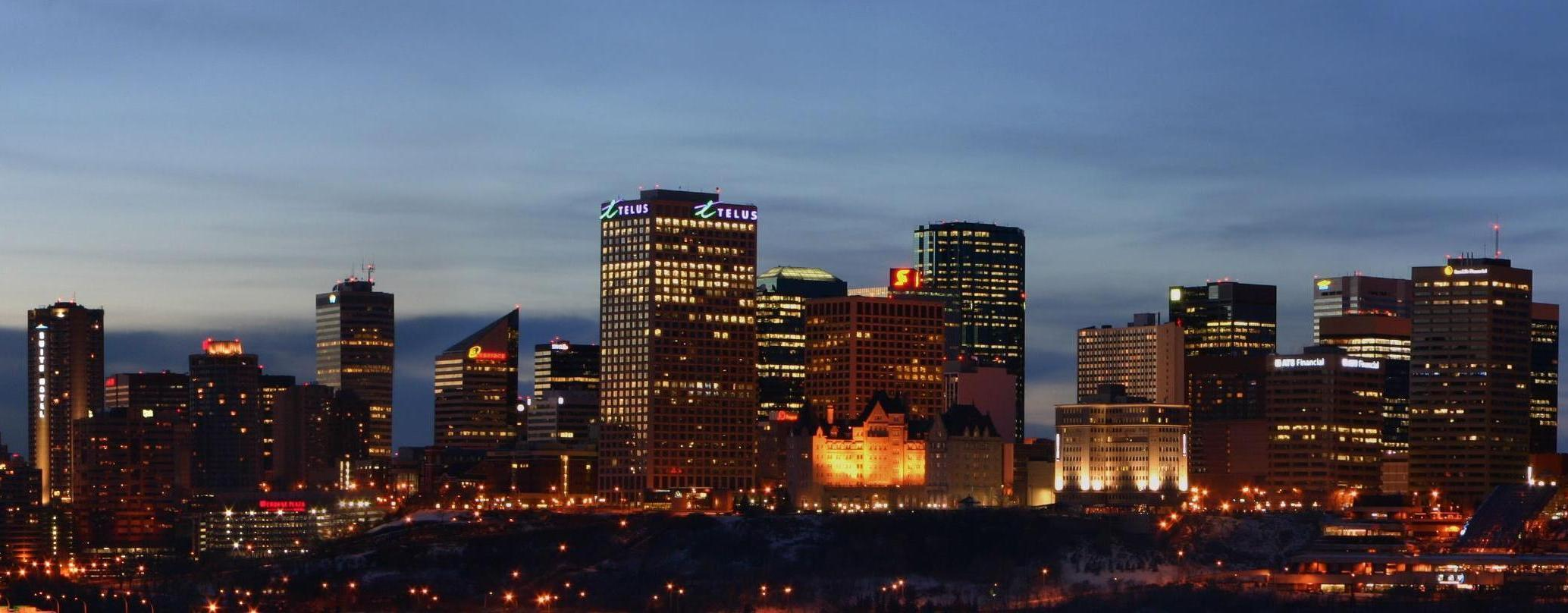 Edmonton, Canada. Same picture as File:Edm panorama2.jpg, adjusted just a little bit